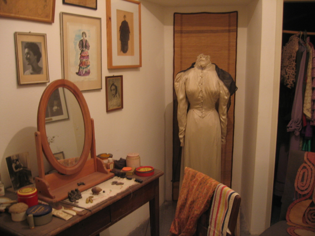 Hanna Rovina's room in Habima National Theatre. The white dress is her costume in the The Dybbuk. he:קטגוריה:חנה רובינא he:קטגוריה:הבימה